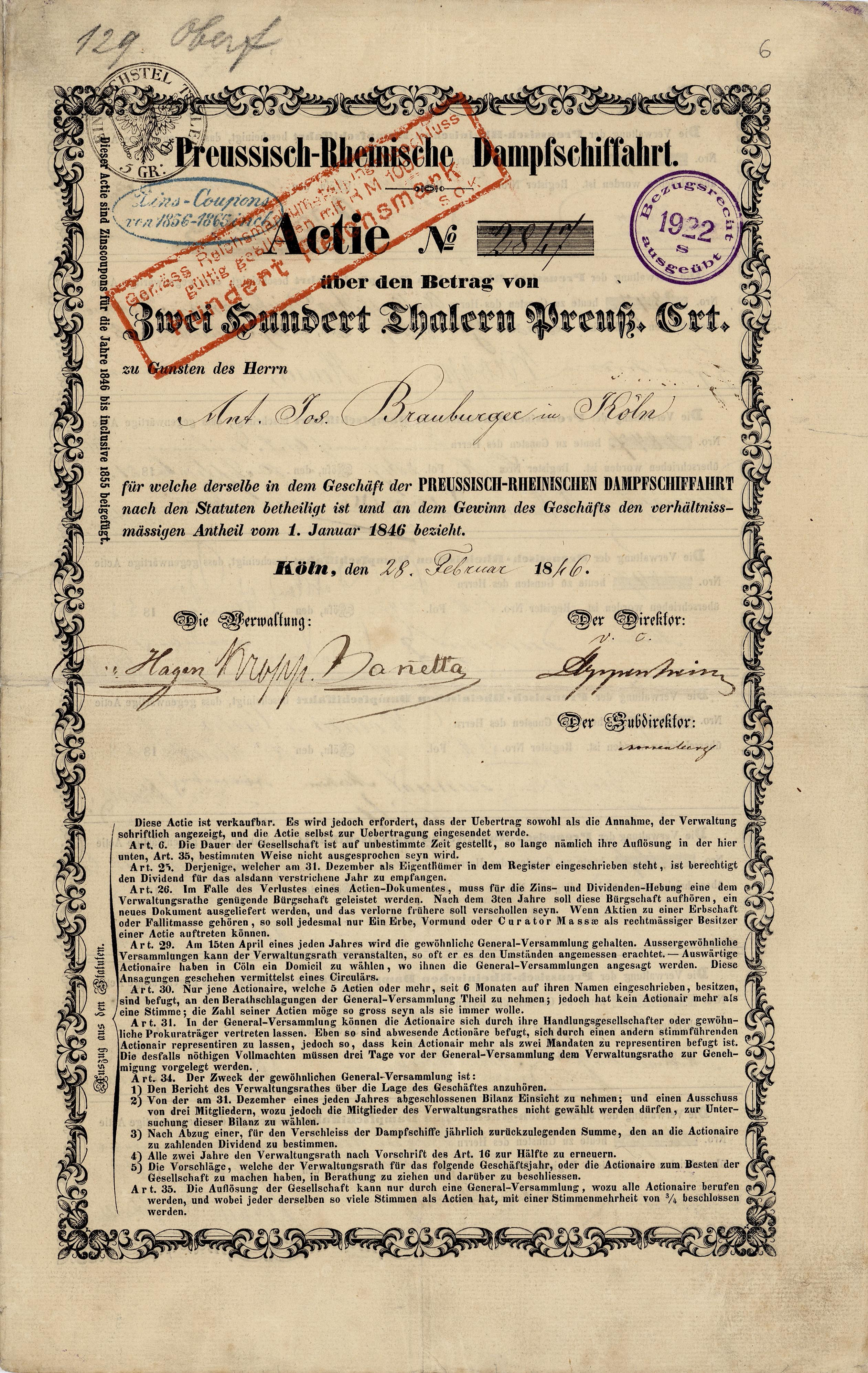 Share of the Preußisch-Rheinische Dampfschiffahrt-Gesellschaft, issued 28. February 1846